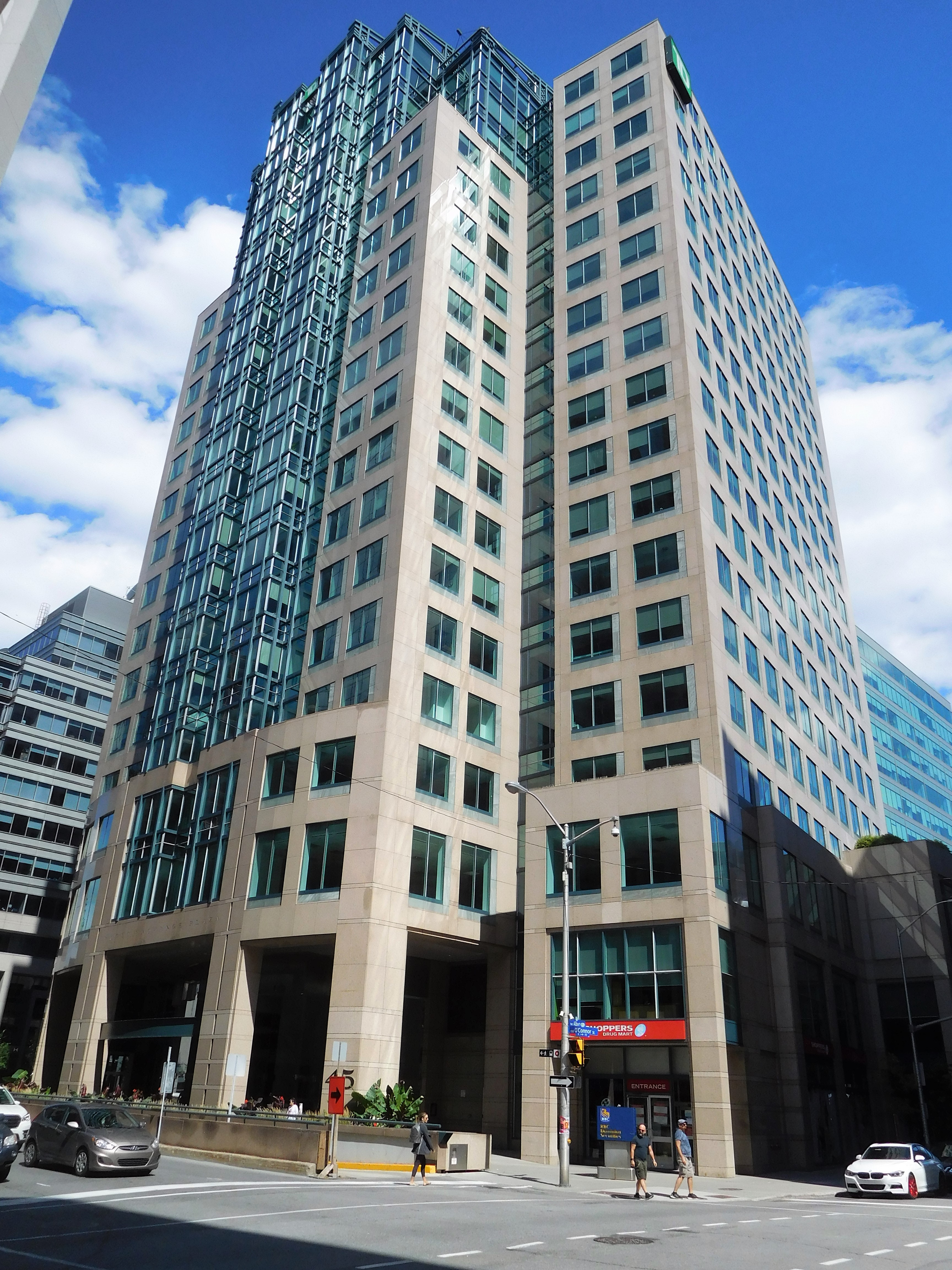 World Exchange Plaza Tower I, 45 O'Connor Street (at Albert), Ottawa